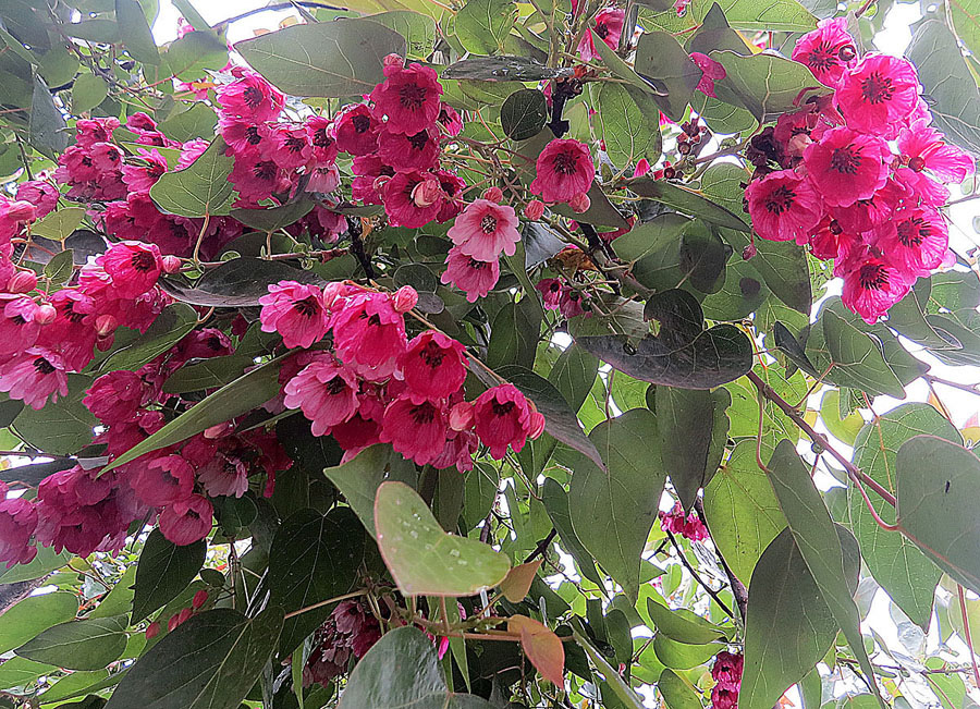 Native to the Tropical Andes of South America, and planted beyond as an ornamental. Photo from Papallacta Hotsprings, Ecuador, where it is known as Cupulicillo. In context at